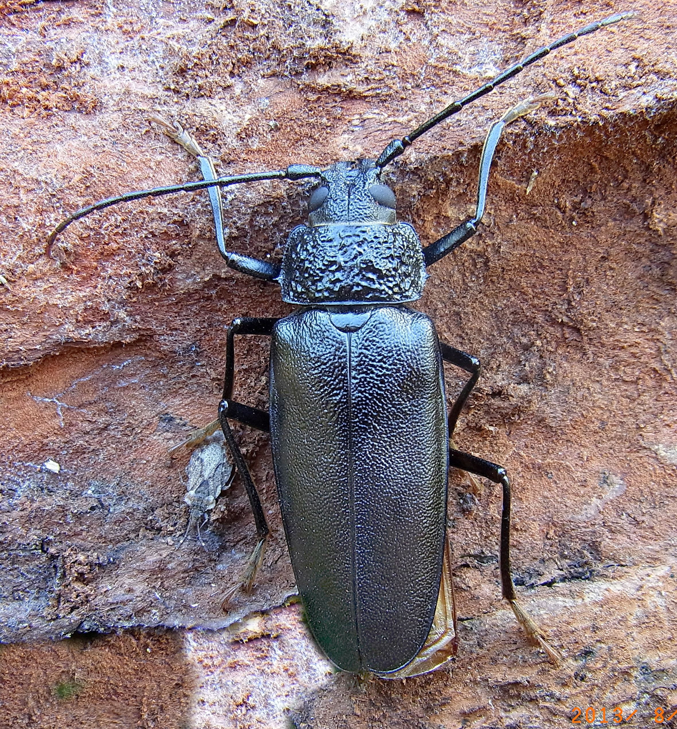 Ergates faber female, from Spain, valley of Roncal near Isaba at 2013-08-26